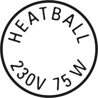 A 75 W Heatball mark